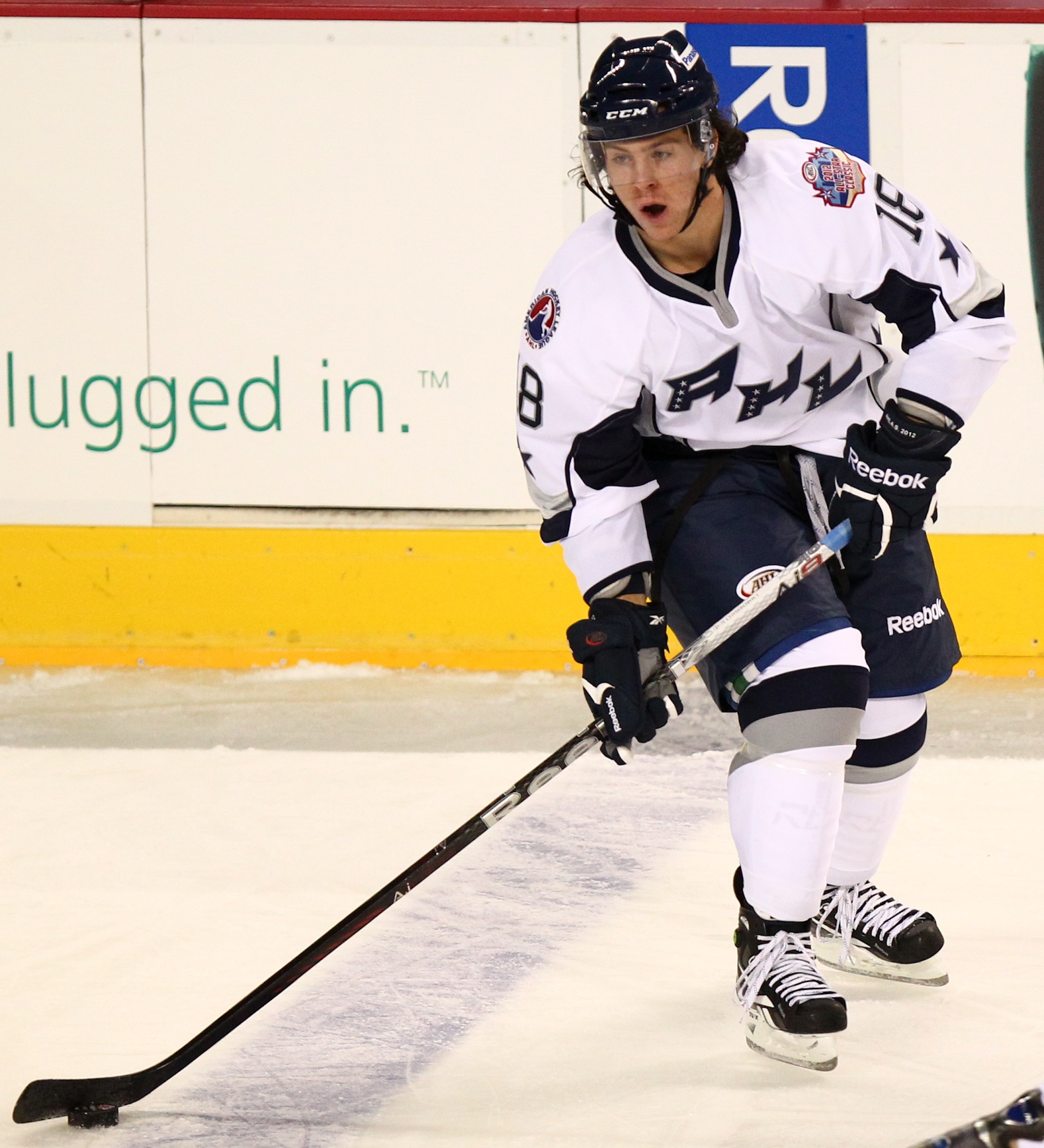 Jonathan Audy-Marchessault, canadian ice hockey player